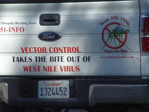 A government pest control truck that sprays for mosquitos (re:West Nile Virus) - on North Torrey Pines Road, San Diego, California.